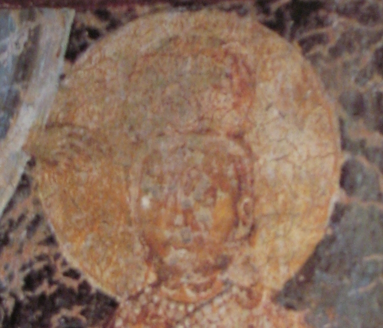 Fresco of Stefan and Vuk Lazarević in Rudenica, near Aleksandrovac, Serbia.